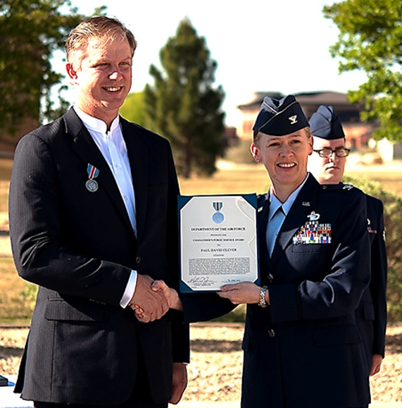 A Presentation of the Commander's Public Service Award by Col. Kimberlee P. Joos, USAF to Mr. Paul Clever at Goodfellow Air Force Base, Texas